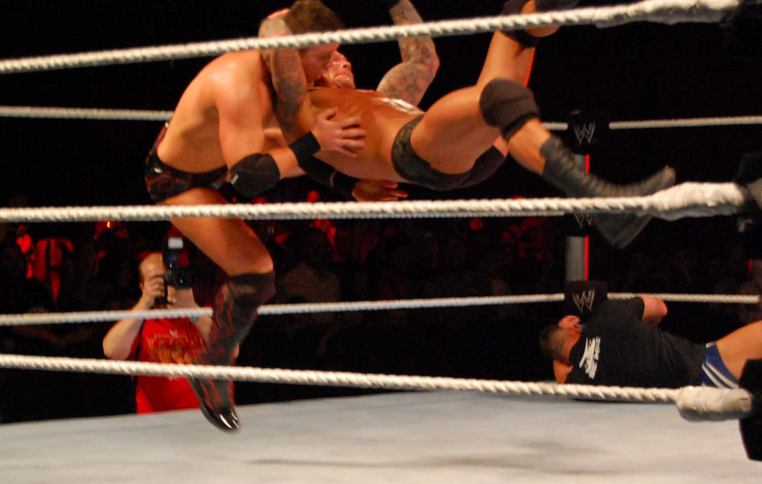 Randy Orton aplicando un RKO a The Miz